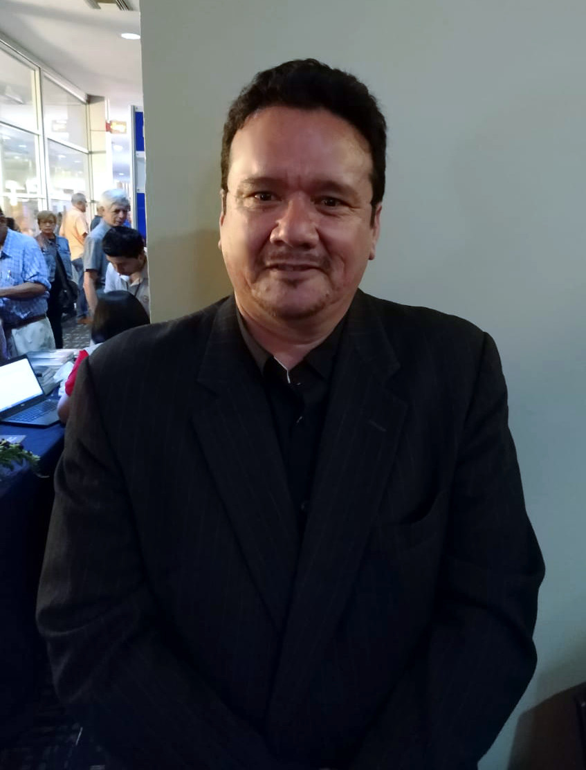 Marcelo Baez in the 2019 Guayaquil International Book Fair